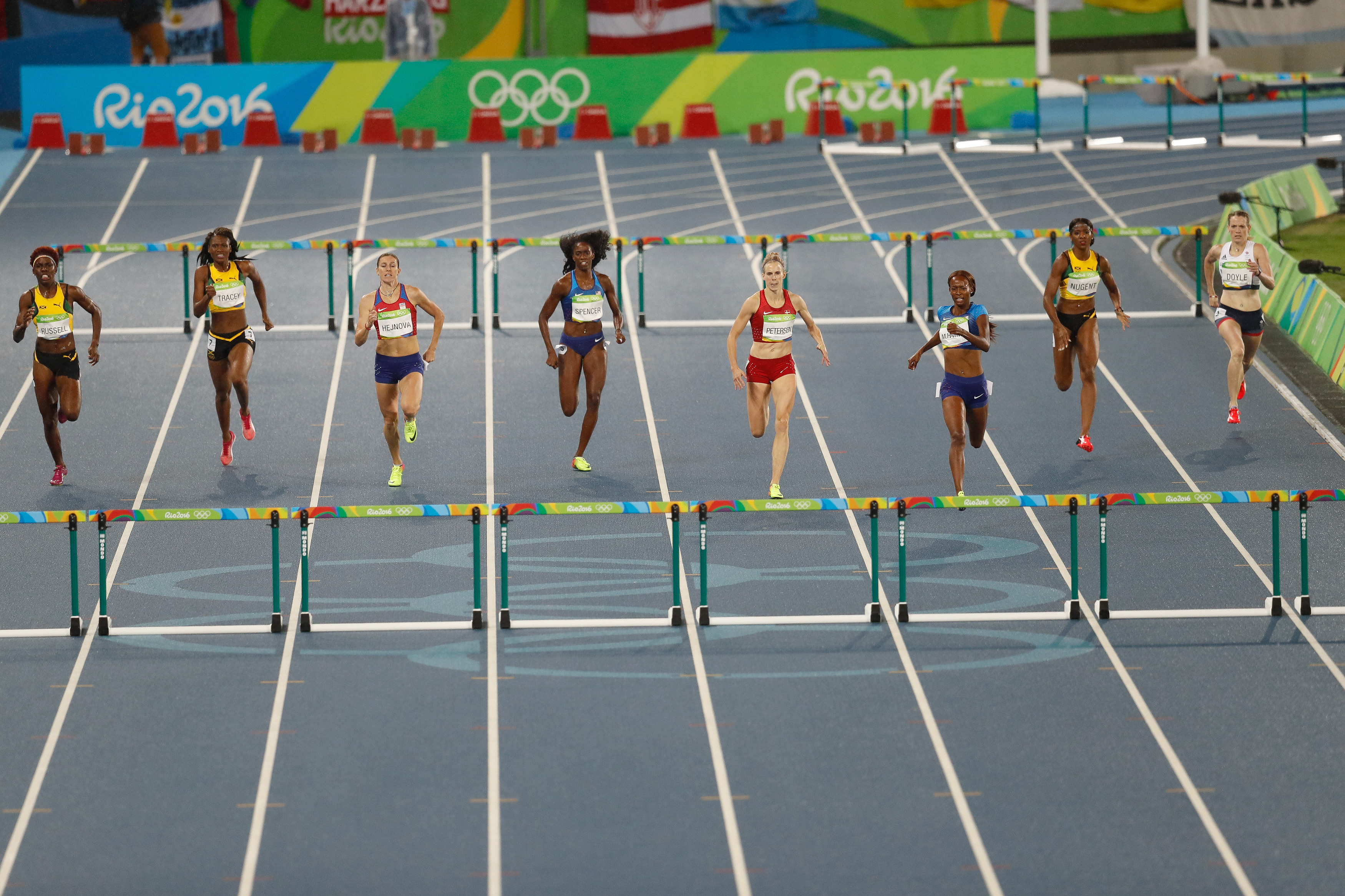 Rio de Janeiro - Dalilah Muhammad, dos Estados Unidos, vence os 400m com barreiras nos Jogos Rio 2016, no Estádio Olímpico. (Fernando Frazão/Agência Brasil)